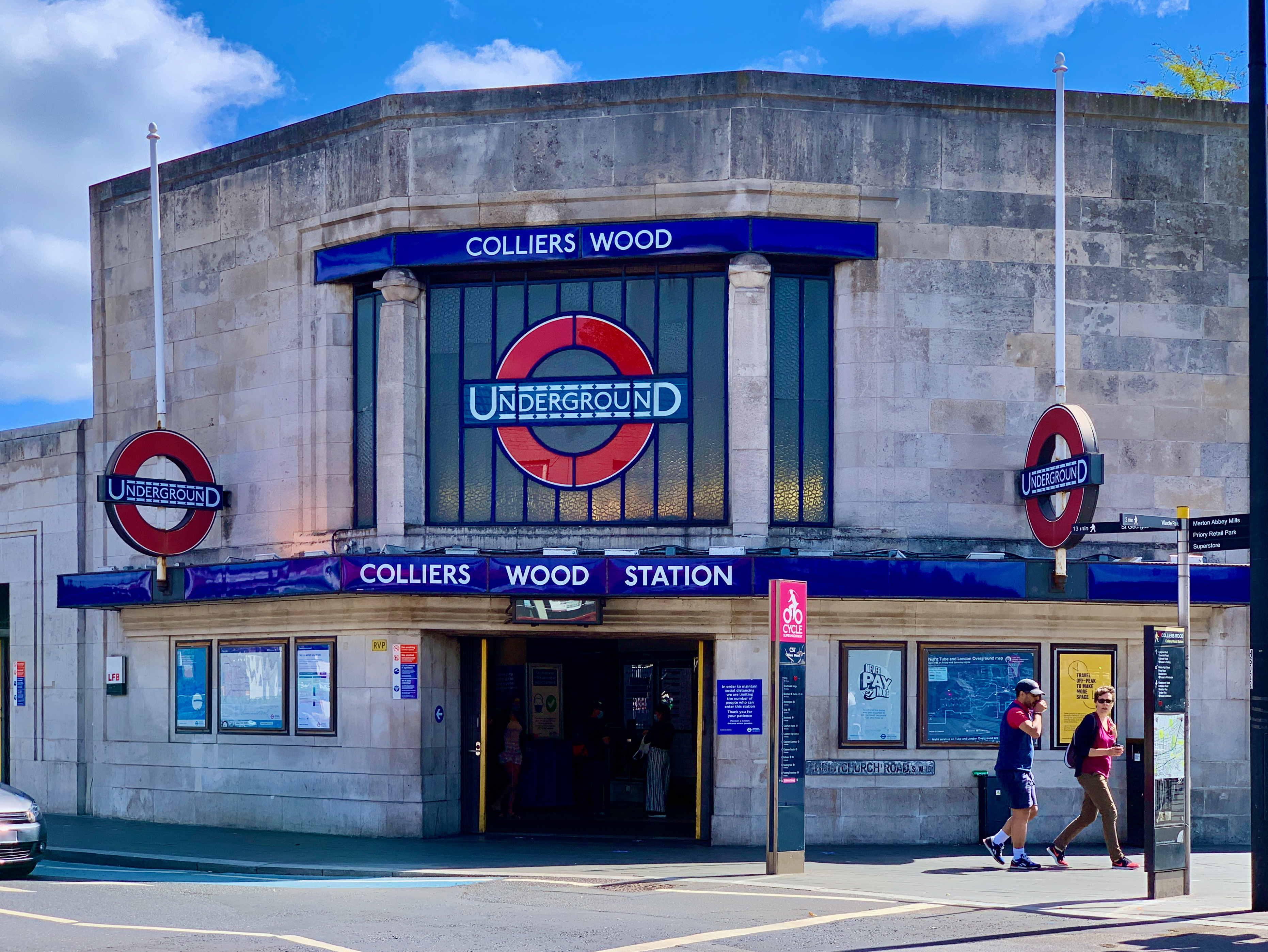 Station building of Colliers Wood tube station. Taken during my Northern Line Tube Walk.